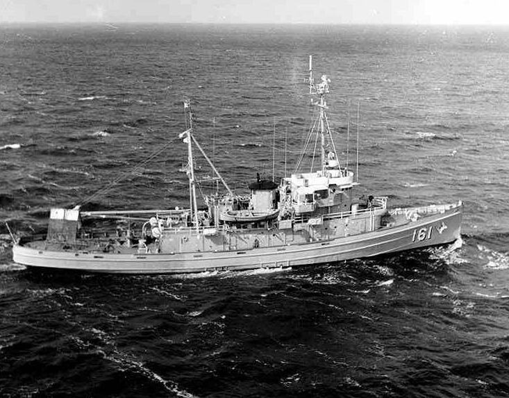 USS Salinan (ATF-161) underway at sea during the 1960s or early 1970s. US Navy photo # 98659 from the collections of the US Naval Historical Center.